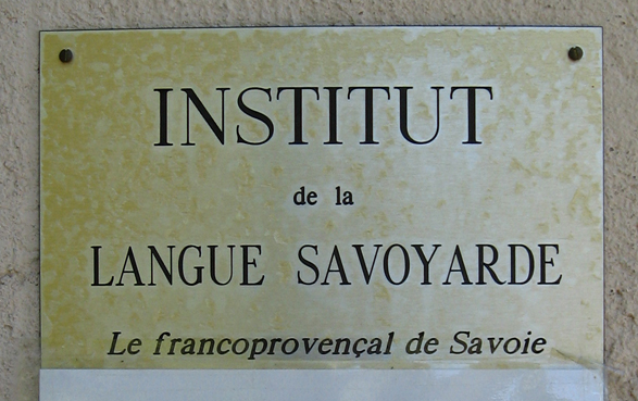 Metalplate, took outside from the Savoyard langague Institute.